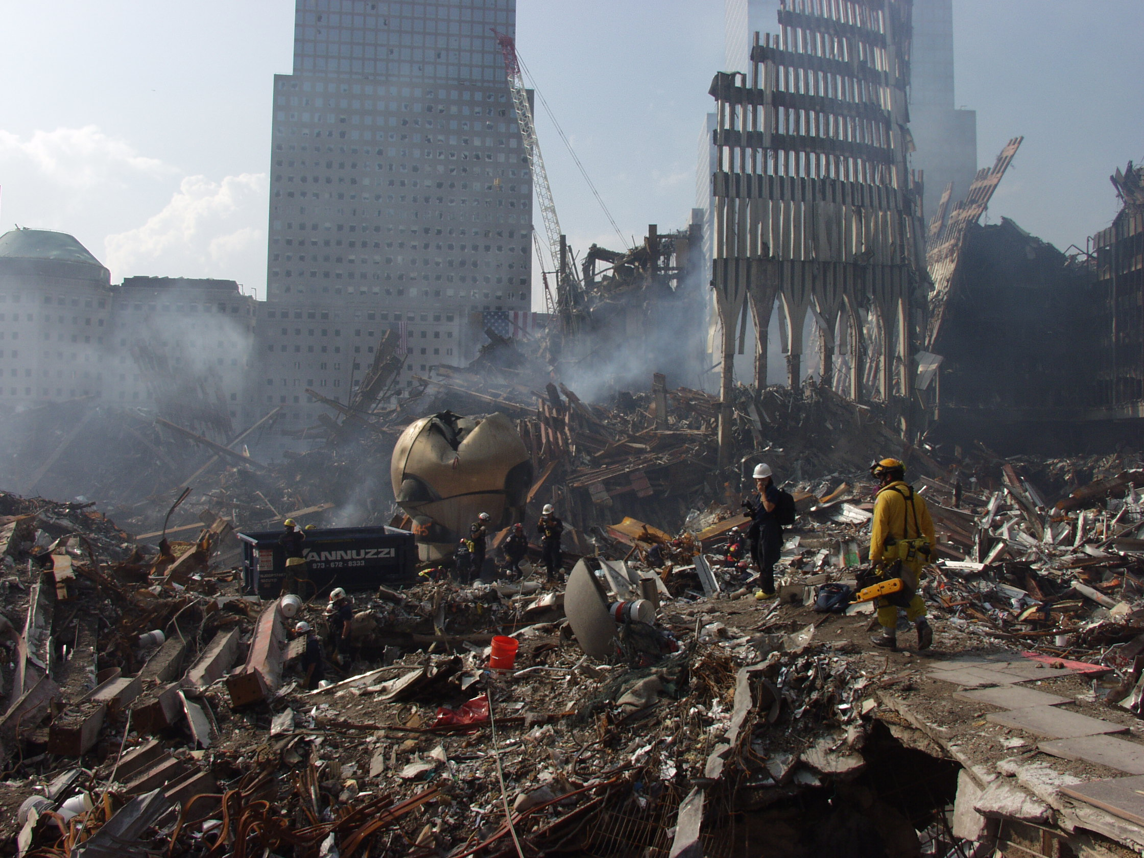 New York, NY, September 21, 2001 -- Rescue crews work to clear debris from the site of the World Trade Center. Photo by Michael Rieger/ FEMA News Poto